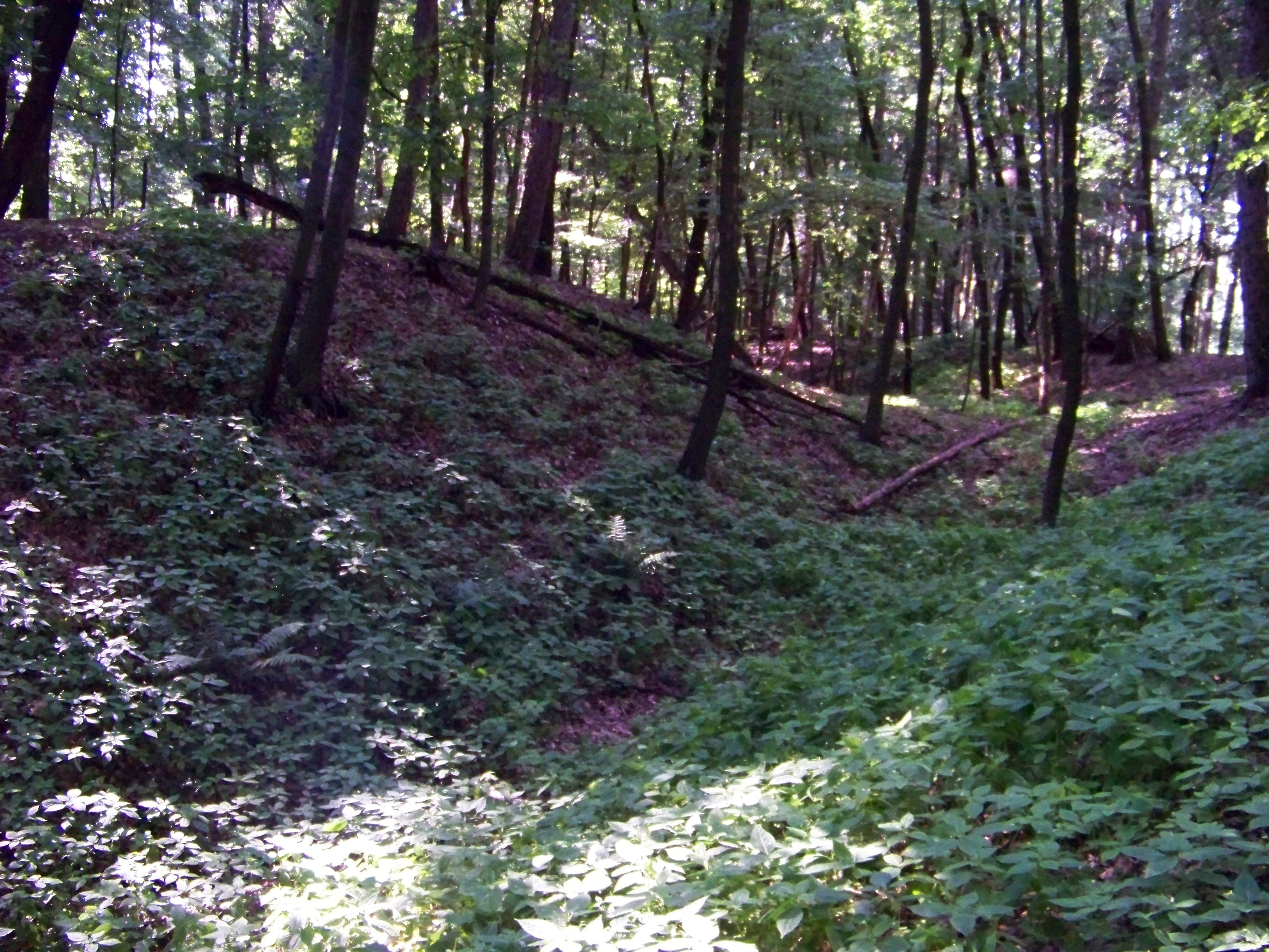 Ostřetín, Pardubice District, Pardubice Region, the Czech Republic. Na Hradcích, remains of ramparts.